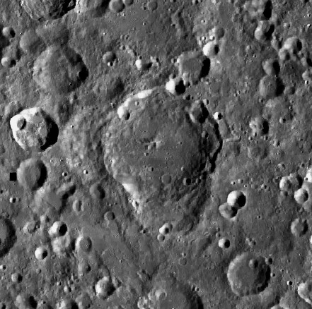 LROC image of Joule crater ; bright ray crater Joule T at left margin